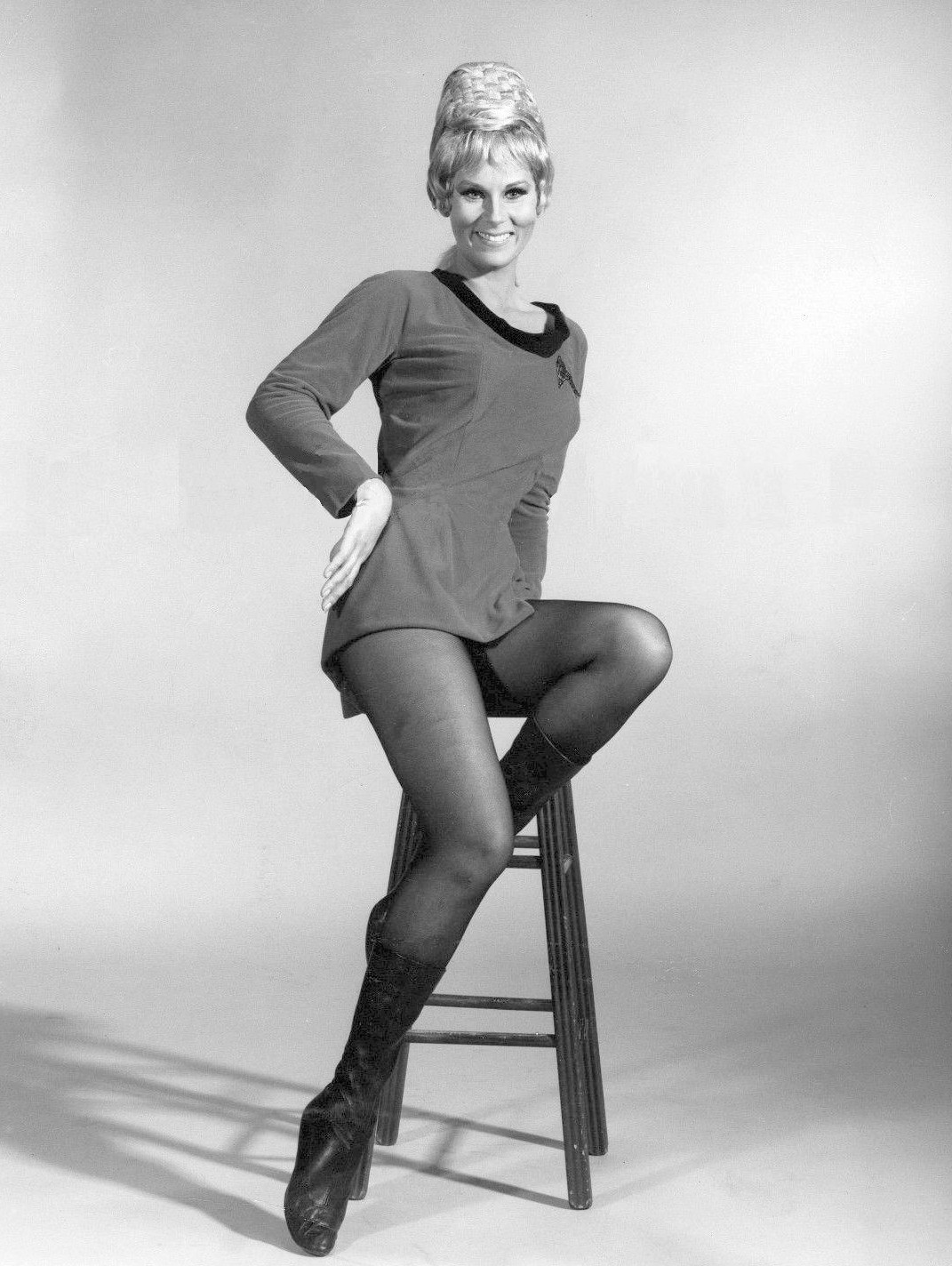 Photo of Grace Lee Whitney as Janice Rand from the television series Star Trek.